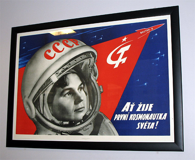 Exploring Space - The Science Museum Russian Vostok-6 poster. The depicted cosmonaut is presumably Tereshkova Valentina Vladimirovna who flew in Vostok-6 and was the first woman in space. The flight took place in 1963. Info regards the Science Museum and its exhibits can be found at